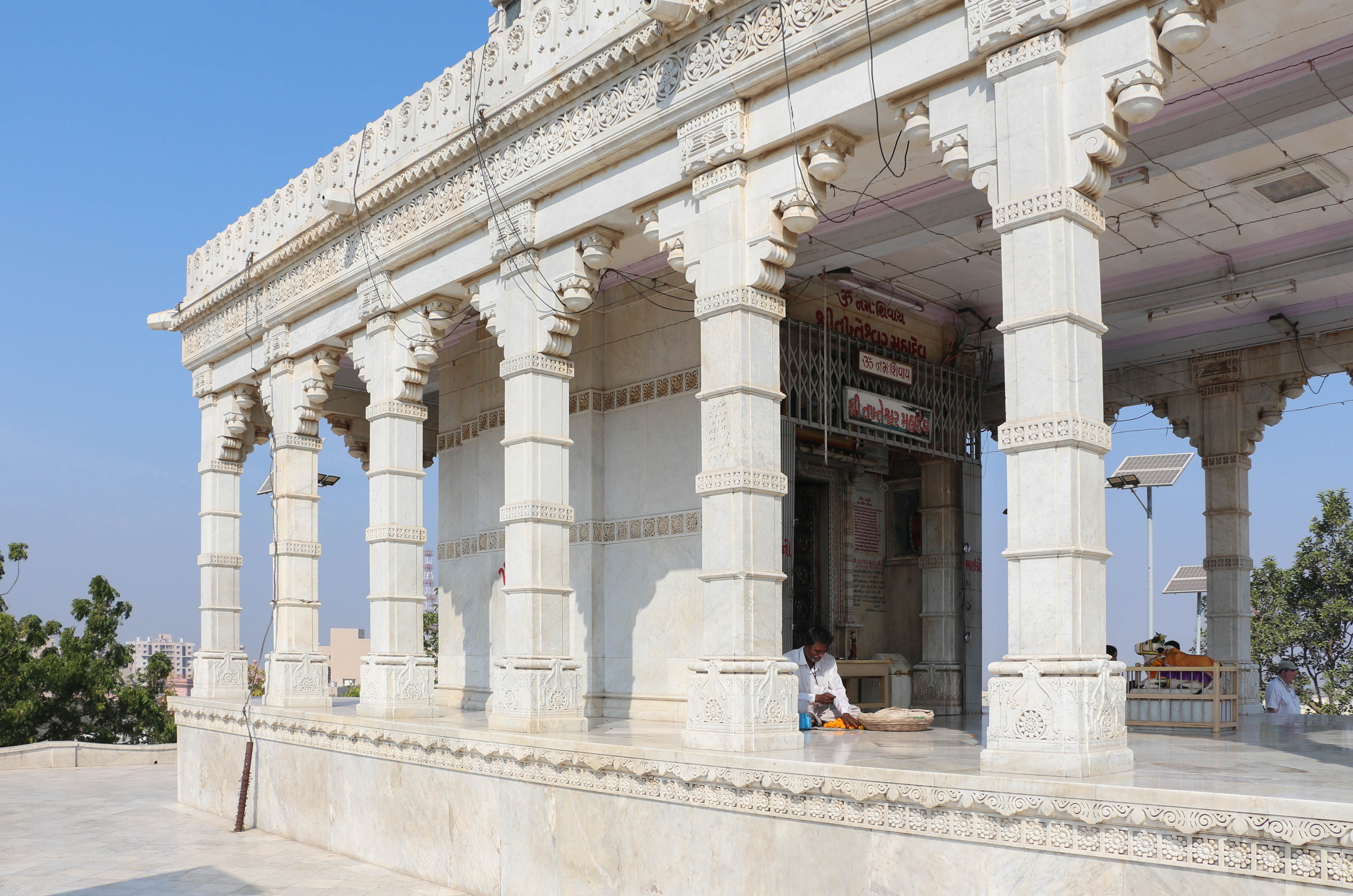 Takhteshwar Temple, Bhavnagar, India